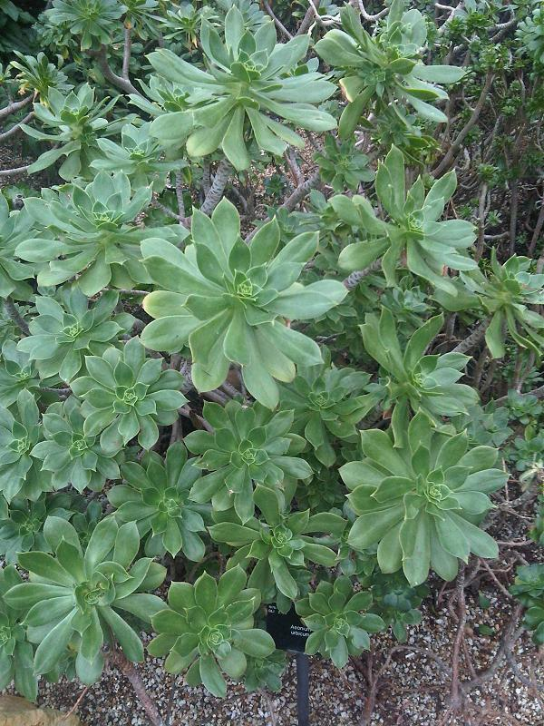 Aeonium urbicum in Kew Gardens, England.